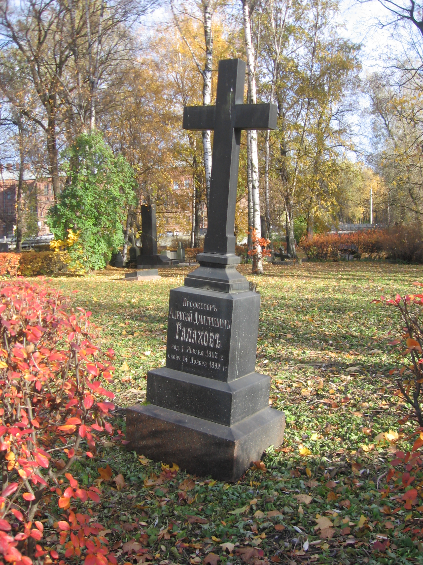 Grave of Alexey Galakhov